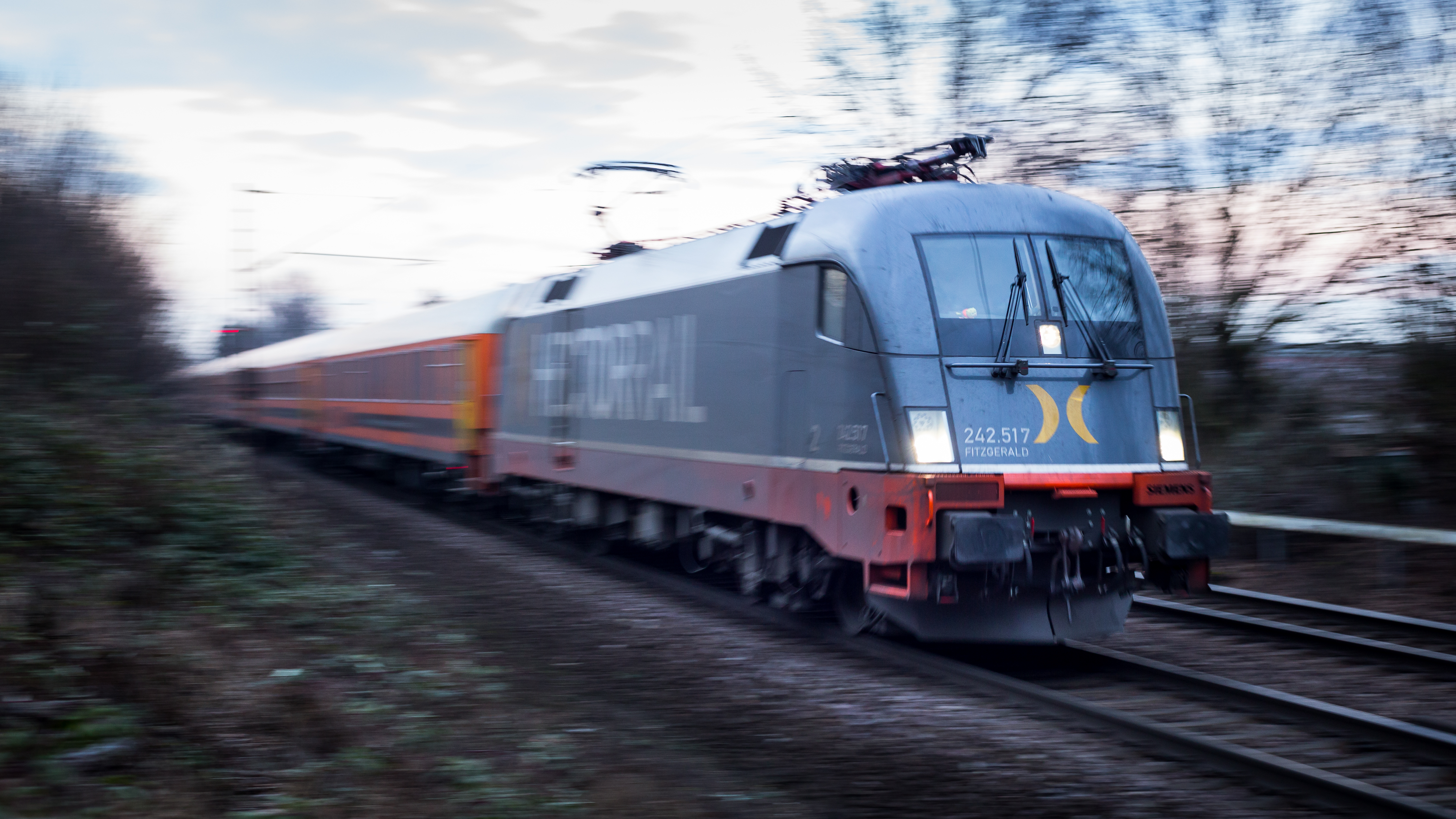 Passenger train operated by Locomore company, seen here travelling in southern direction at freight train bypass in Limmer quarter of Hannover, Germany.